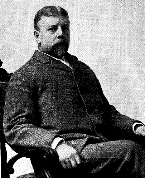 Portrait of Dr. George Sumner Huntington, who passed away in 1927.